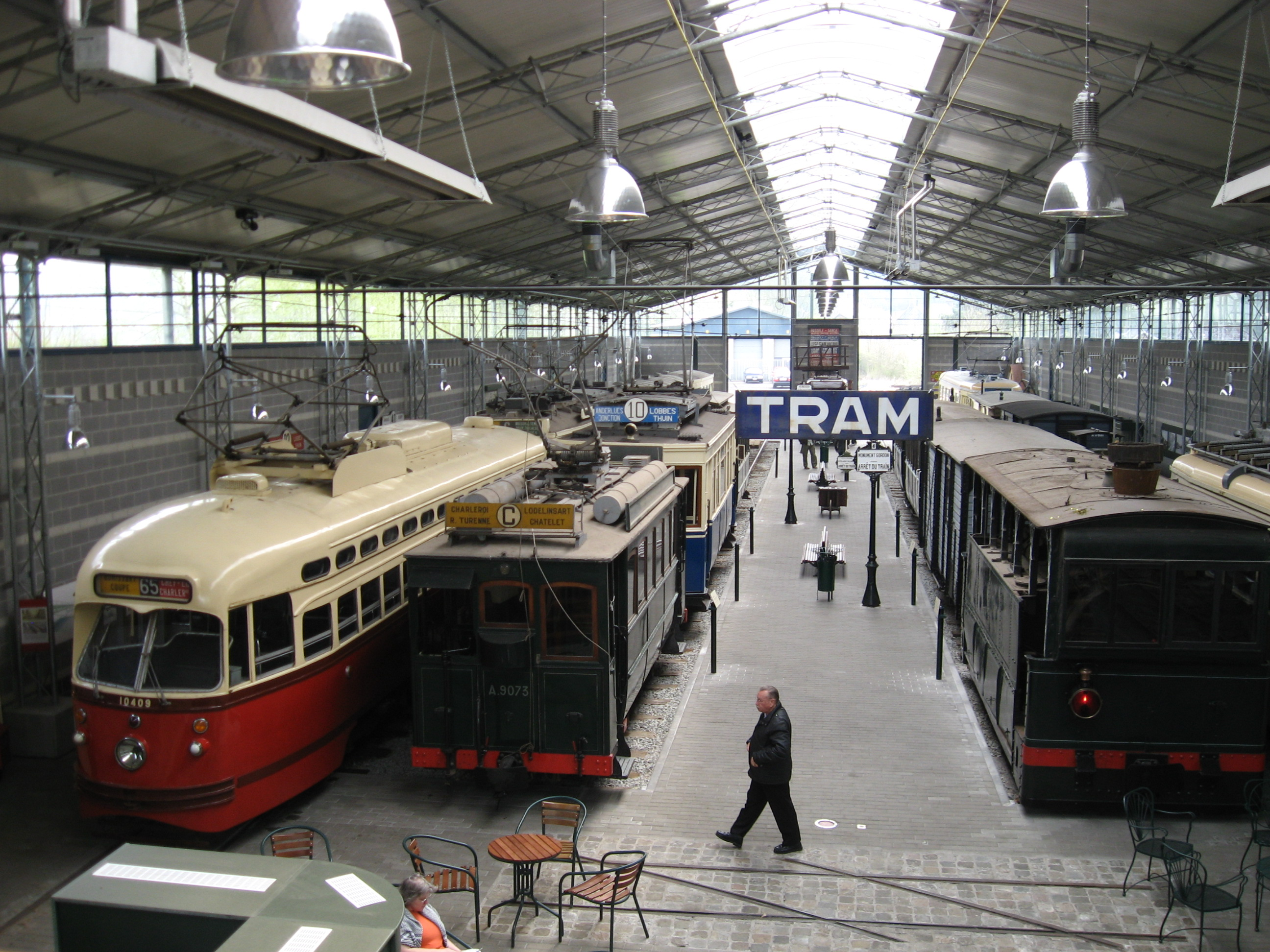 Overview of the Asvi trammuseum. Left PCC-car, center first elektric NMVB car, right Steamloc